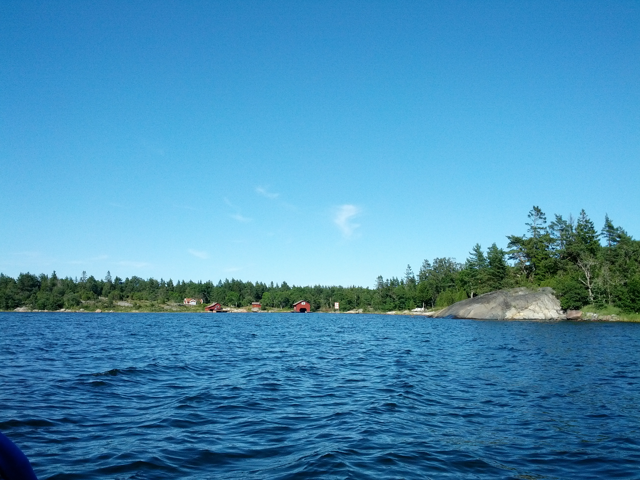 Enholmen-Furuskar seen from west (Uppland, Sweden)